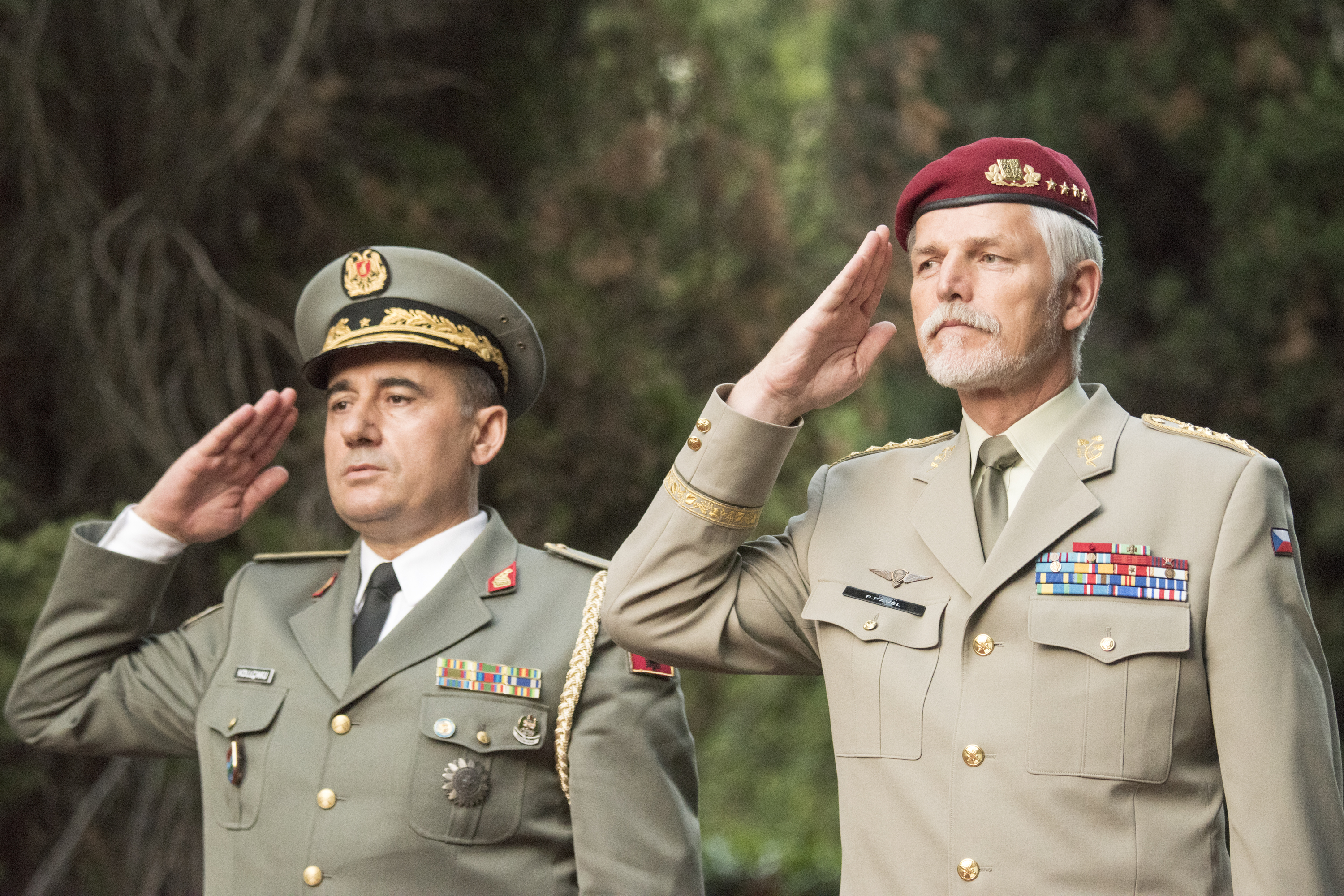 Chairman of the North Atlantic Treaty Organization Military Committee Gen. Petr Pavel and Albanian Chief of the General Staff Brig. Gen Bardhyl Kollcaku inspect an Albanian Honor Guard during the opening ceremony of the NATO Military Committee in Chiefs of Defense (MC/CS) Session in Tirana, Albania May 17, 2017. The Chiefs of Defense will meet to discuss Afghanistan, countering terrorism and other NATO operations and missions to provide the North Atlantic Council with consensus-based military advice on how to best meet global security challenges. (DOD photo by Navy Petty Officer 1st Class Dominique A. Pineiro)